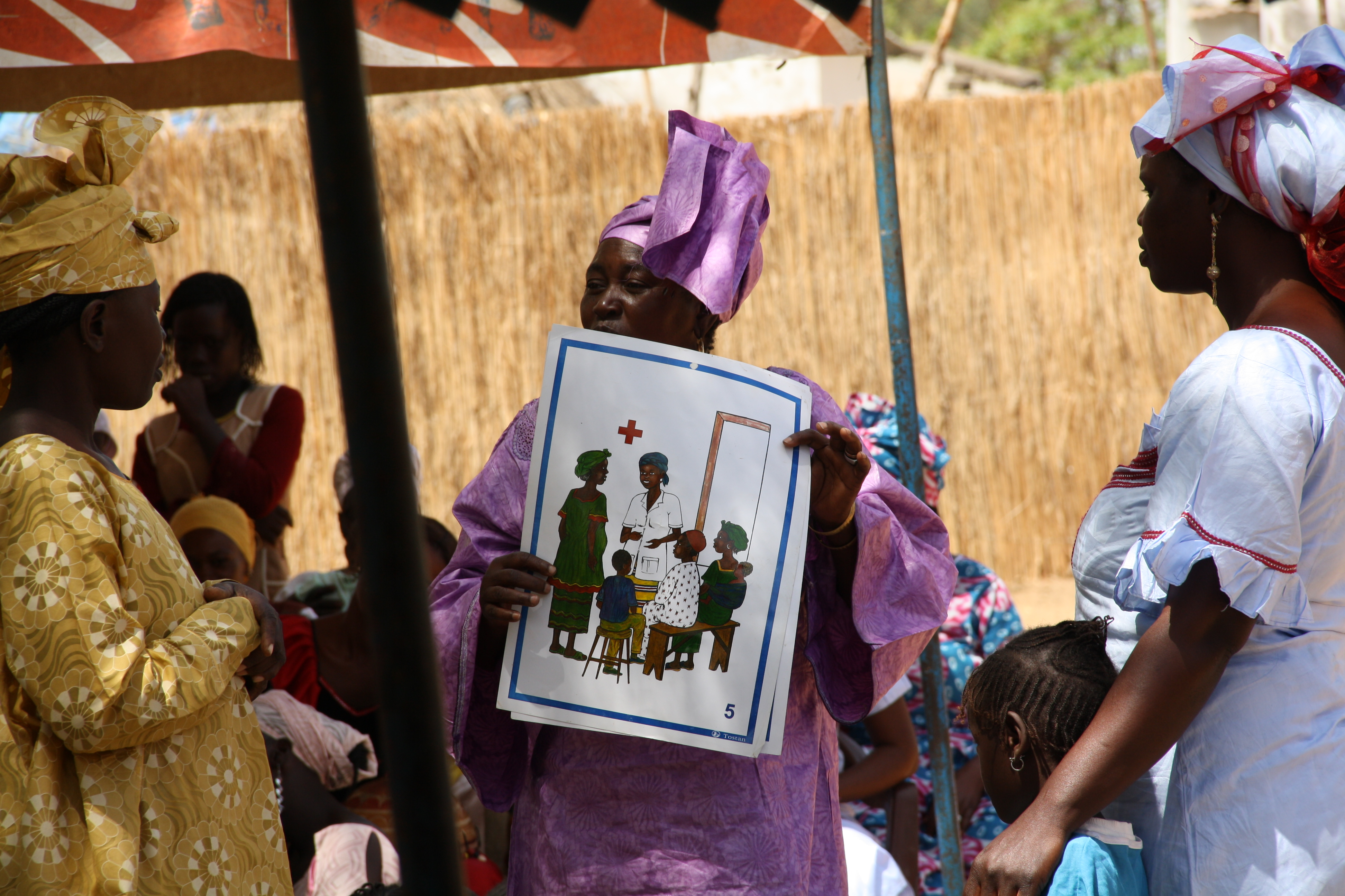 Doussou Konate never went to school. Yet after completing Tostan's programme she became a facilitator for the charity, teaching literacy in a neighbouring village and campaigning to spread awareness of the harmful affects of FGC and forced marriage. In March the UK committed to help end female genital cutting within a generation. Find out more: Picture: James Fulker/DFID